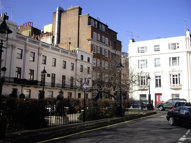 Victoria Square. The small public communal garden here is one title privately owned by 'some' of the property owners. It is open to the public during weekdays. A fairer description would have been Victoria Green or Victoria Place and such a better description would have been required in today's street naming conventions of most UK local authorities. For evidence this is one title